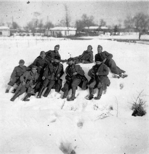 A group of Officers of ELAS. 1944 This media file is produced by Wikipedian in Residence in Category:Wikipedian in Residence at DARM in 2016.